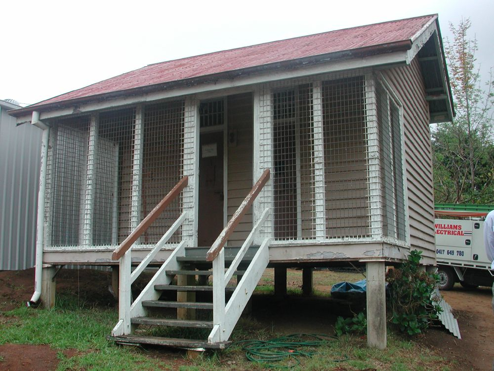 Pomona Police residence (& former station), lock-up and courthouse - the lock-up